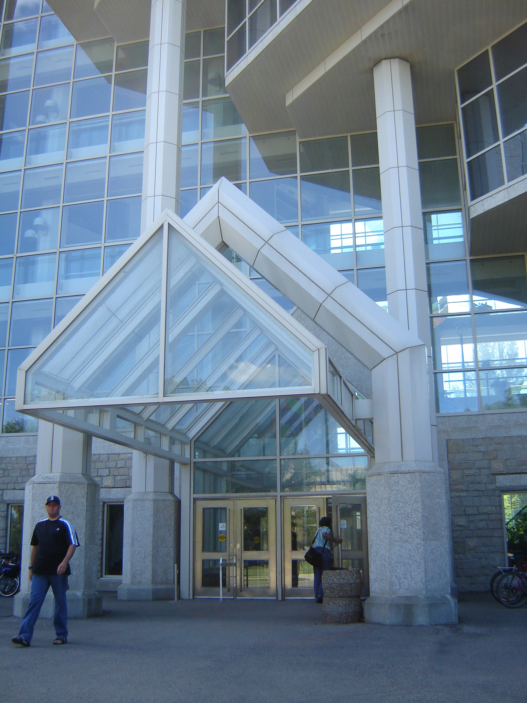 Agriculture building University of Saskatchewan Academics